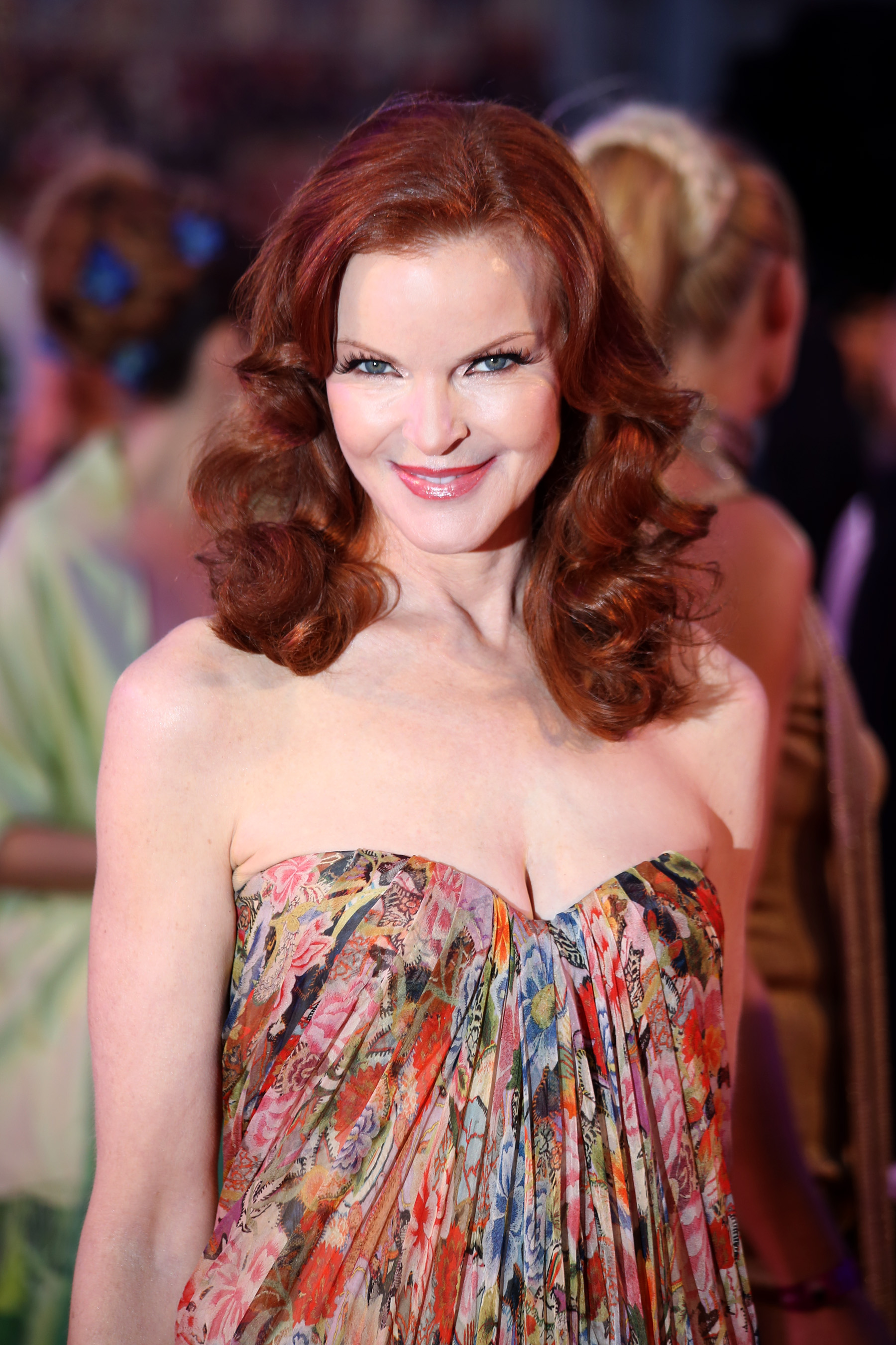 Life Ball 2014: Marcia Cross on the red carpet on the square in front of the Rathaus (Town Hall) of Vienna, Austria.